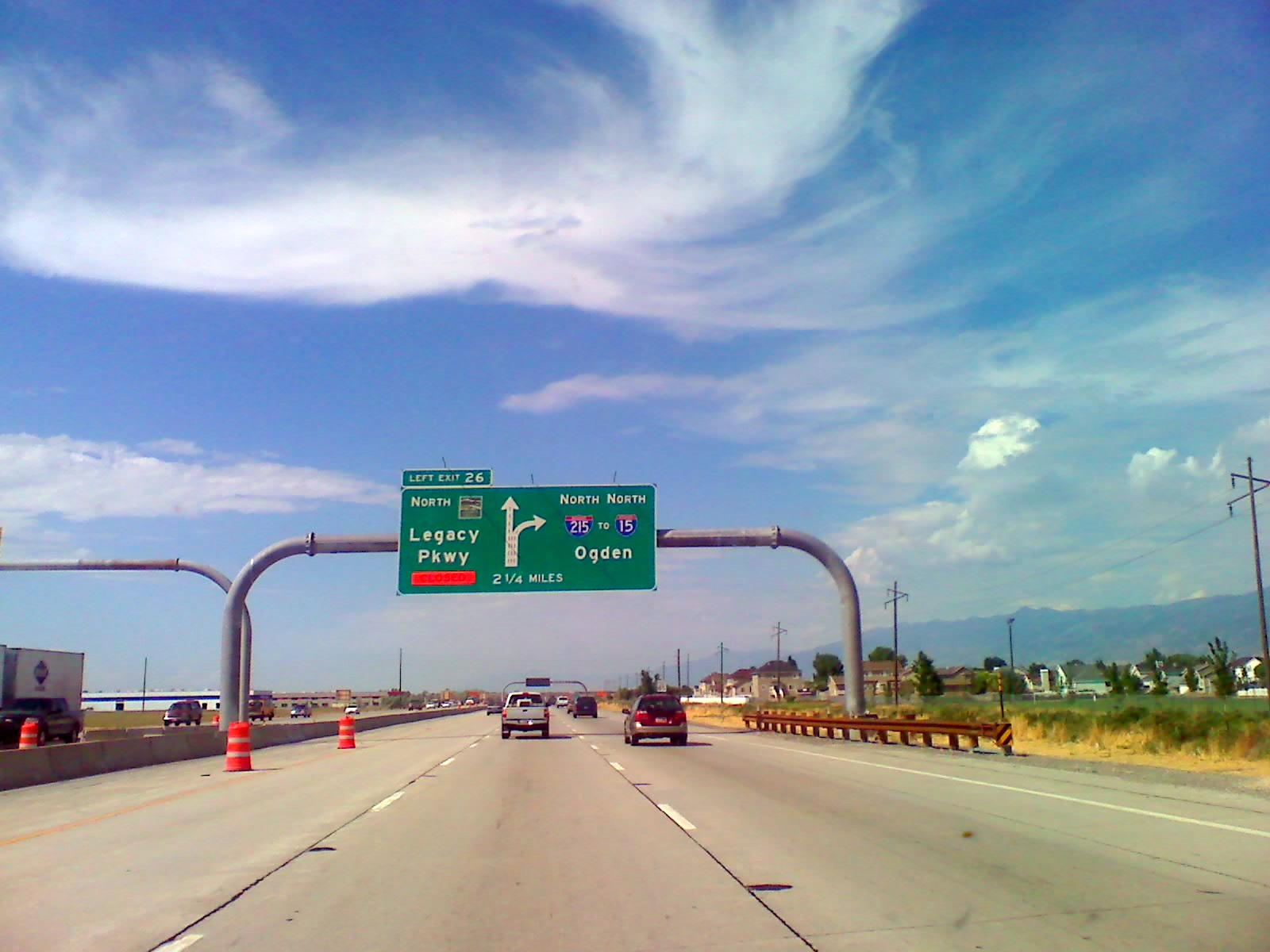 I-215 south of the 2100 North exit before the completion of the Legacy Parkway